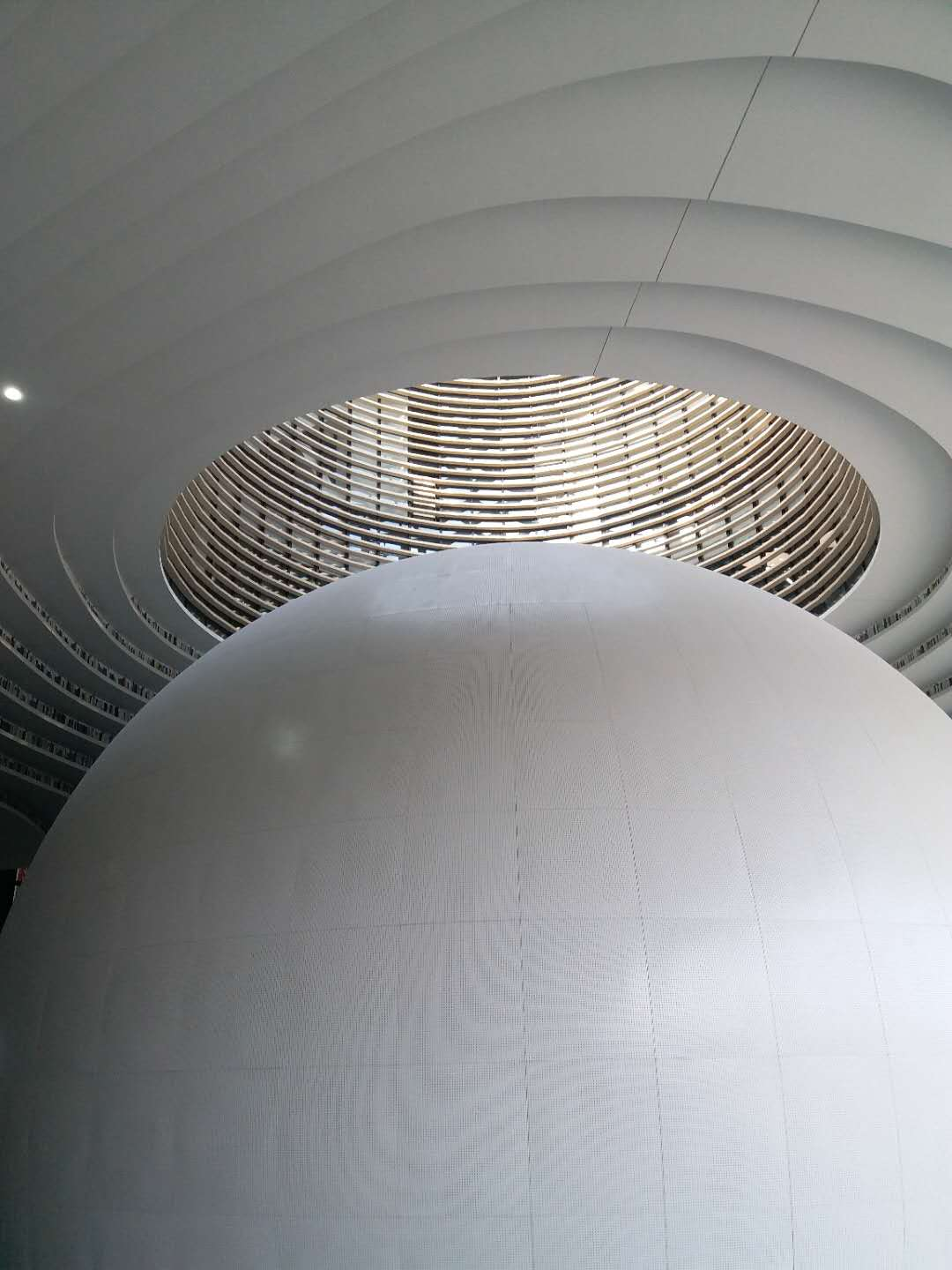 Sphere in the center of the Beijing library